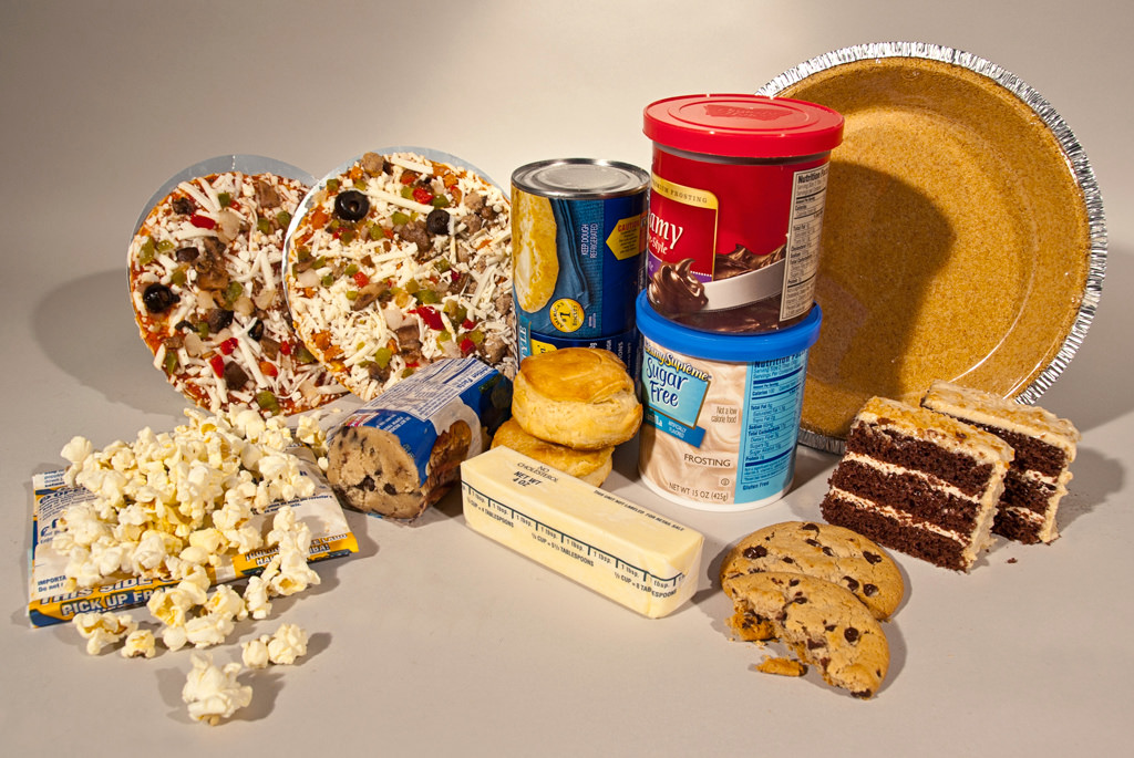 A variety of processed foods—including the frozen, canned and baked goods shown—contain trans fat. The amount per serving is listed on the Nutrition Facts label. The inclusion of partially hydrogenated oil in the list of ingredients, is another indication that trans fat is present. For more about trans fat and how to avoid it, read this Consumer Update. This photo is free of all copyright restrictions and available for use and redistribution without permission. Credit to the U.S. Food and Drug Administration is appreciated but not required. For more privacy and use information visit